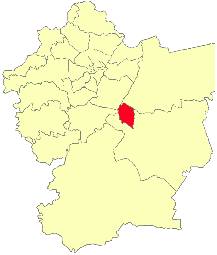 Amman districts